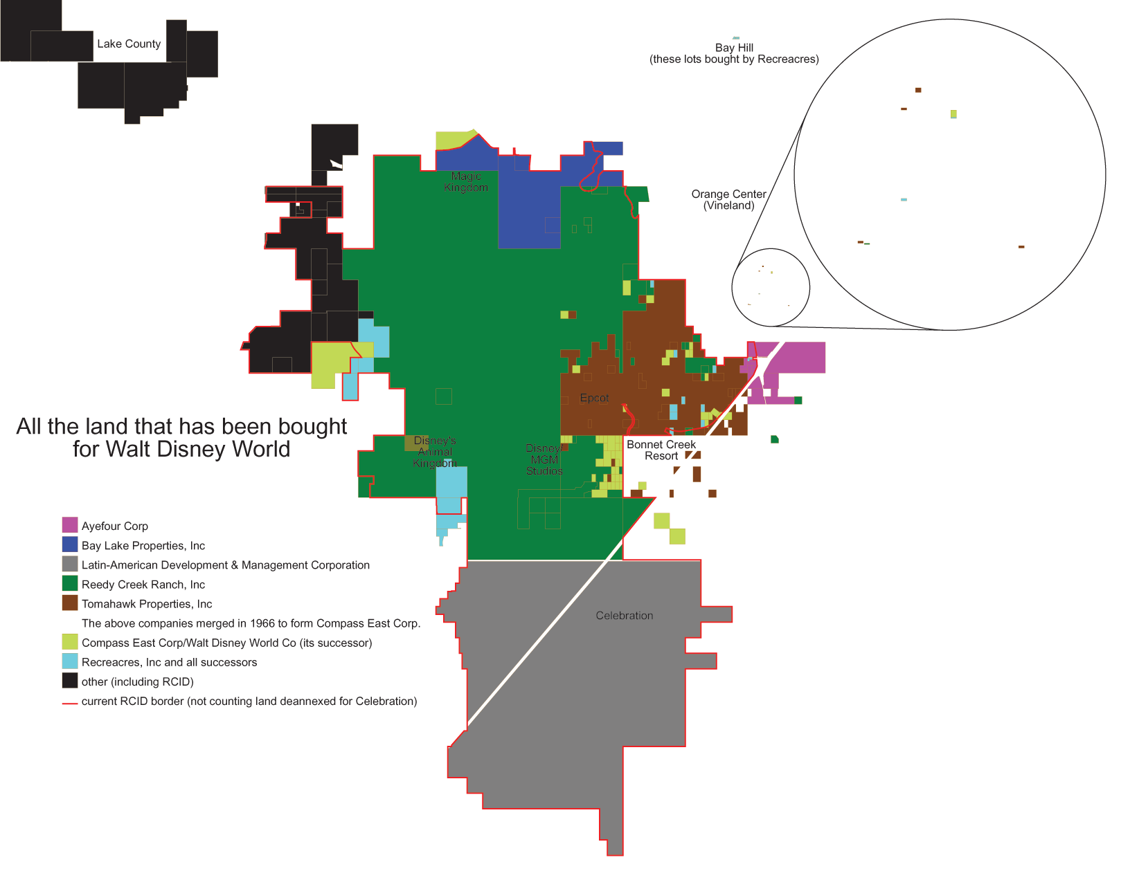 Boundaries of Randy Creek Improvement District obtained from county public records.